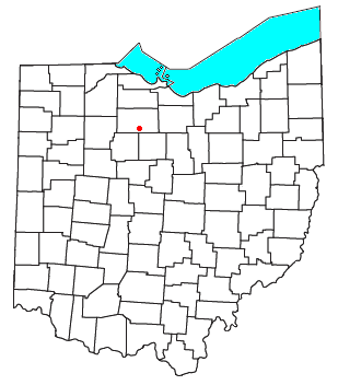 Locator map of the unincorporated community of Melmore in Seneca County, Ohio, United States.